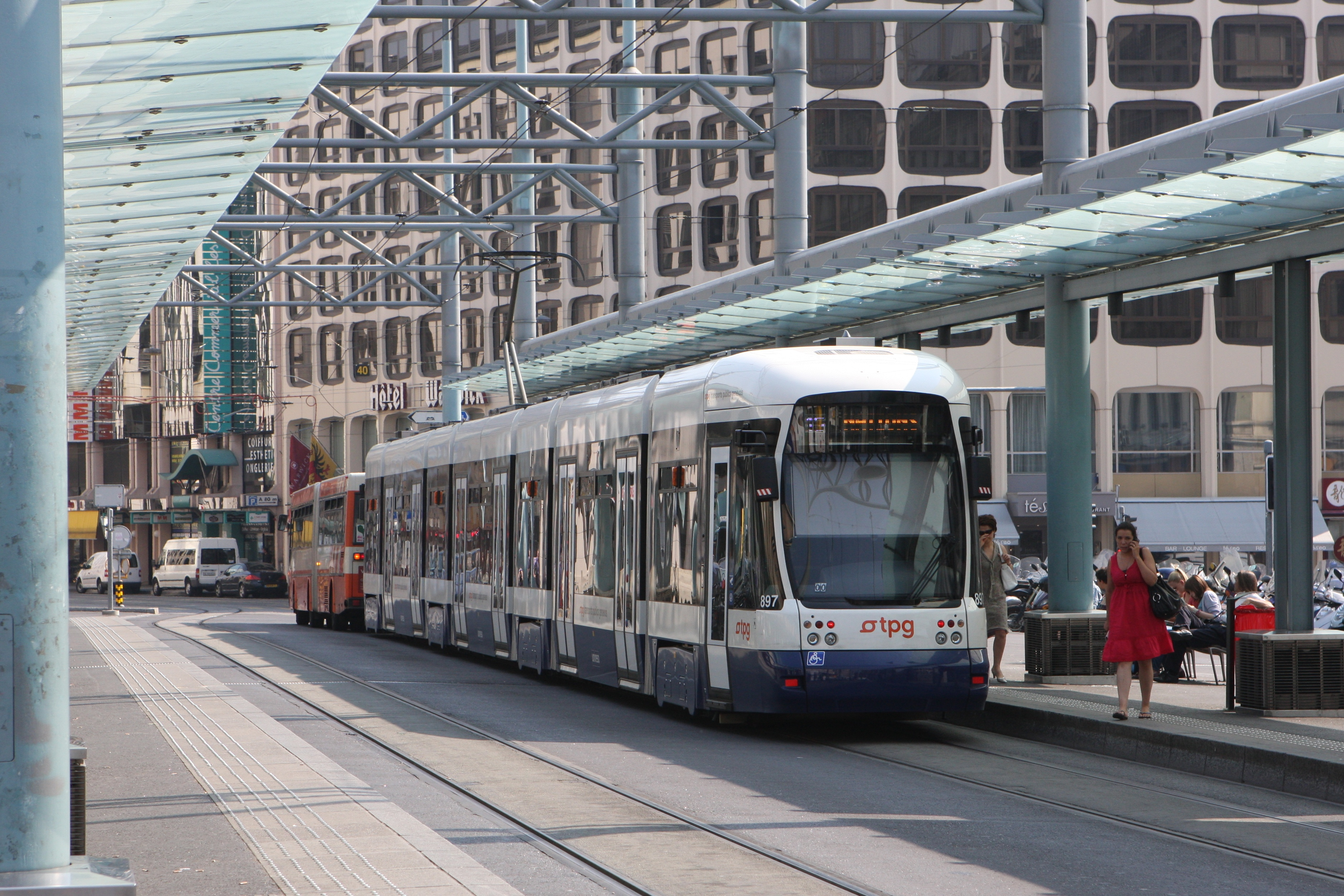 bus and tram at Geneva mainstation